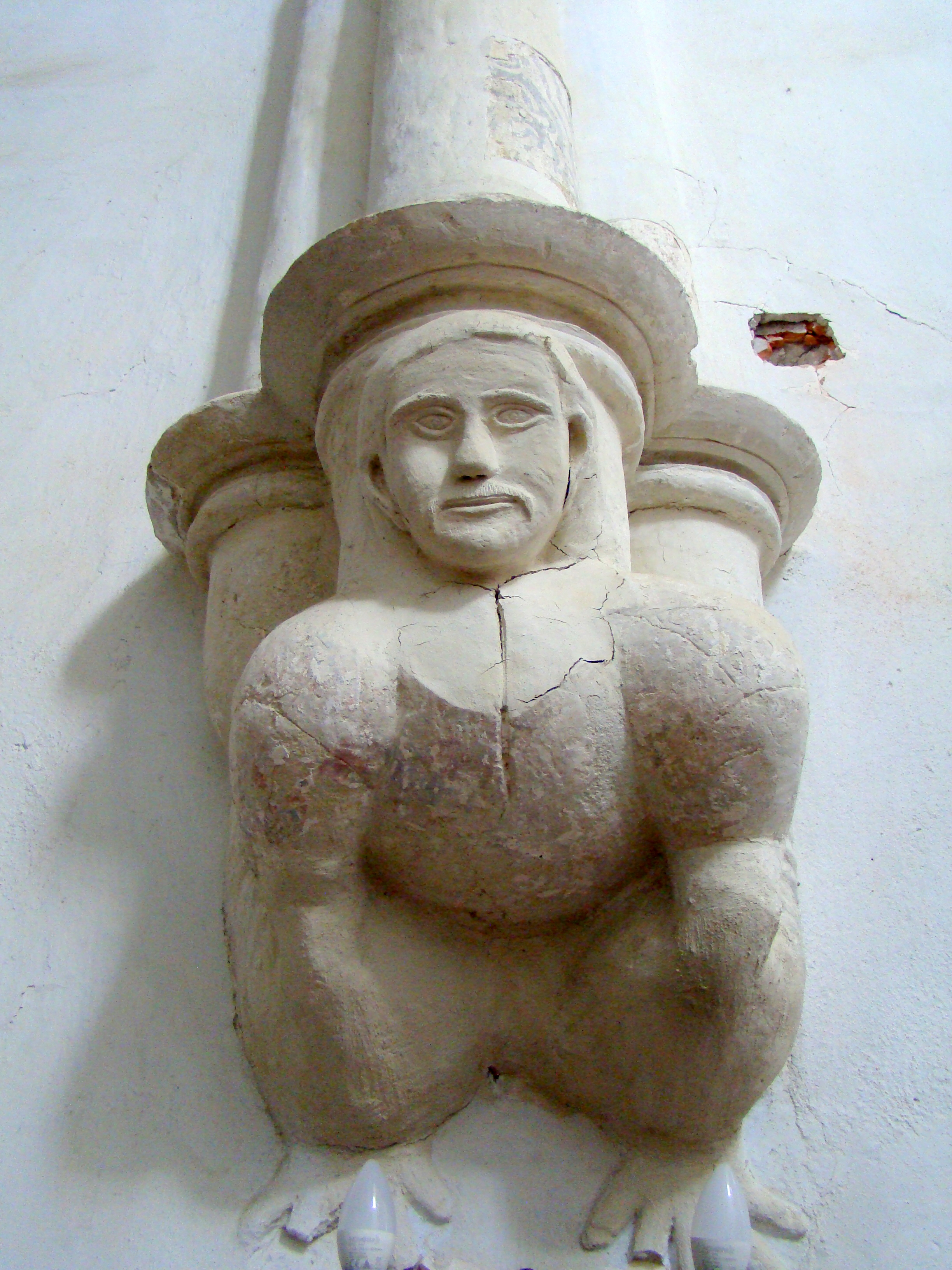 Lutheran church in Hălmeag, Brașov County, Romania